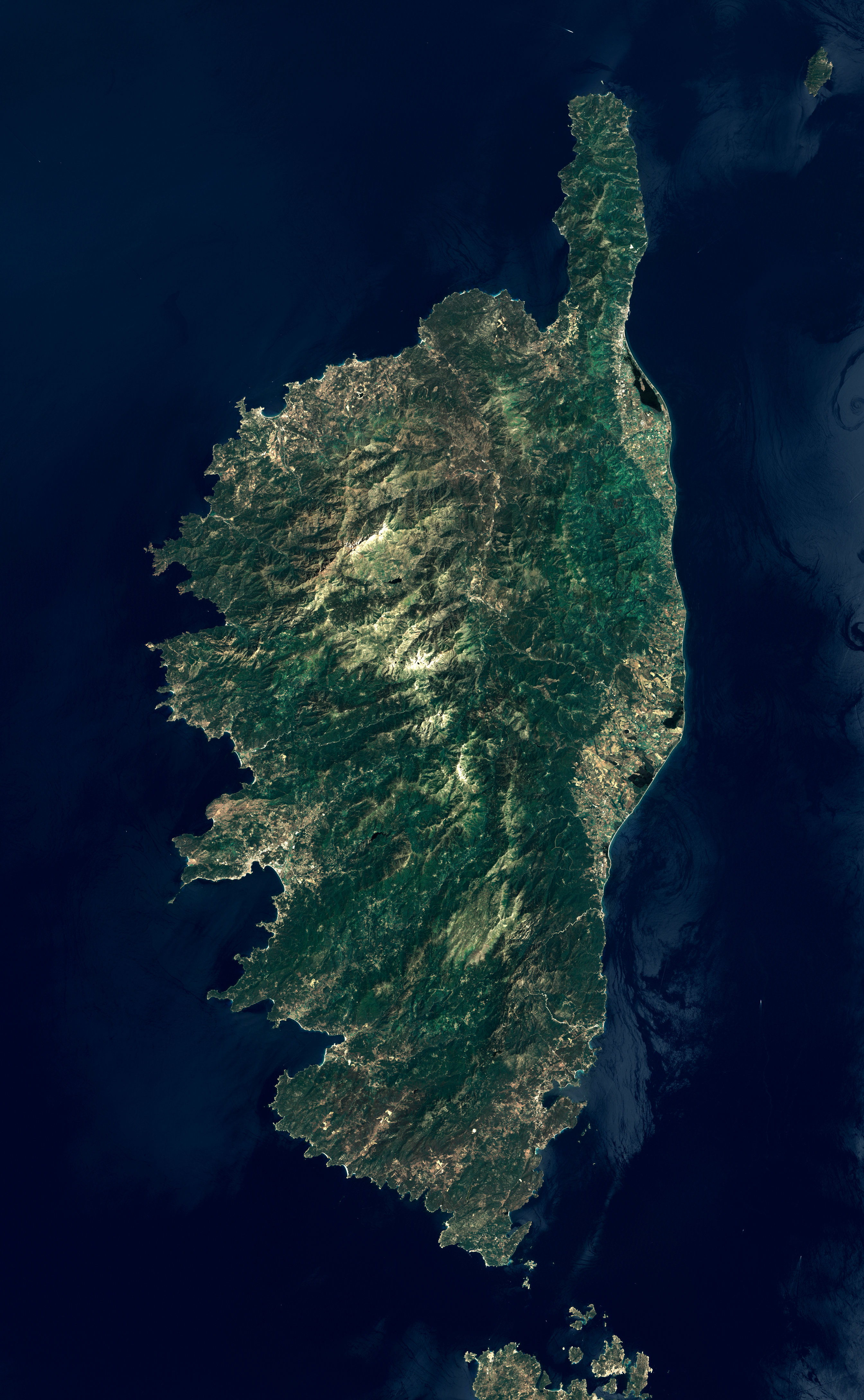 View of Corsica from the Landsat 7 satellite. This picture was built using data from the ETM+ instrument, by merging two datasets covering each half of the island. Bands 1, 2 and 3 (respectively blue, green and red) were combined to get a true-color image. Data from band 8 (panchromatic, visible + near infrared) was used as intensity value. Colors were then enhanced using an image manipulation program. Bands 1, 2 and 3 have a resolution of 30 m, and band 8 has a resolution of 15 m. Data was acquired on 2002-06-17. Most of the mountains thus lack snow, but névés can still be seen on highest peaks.